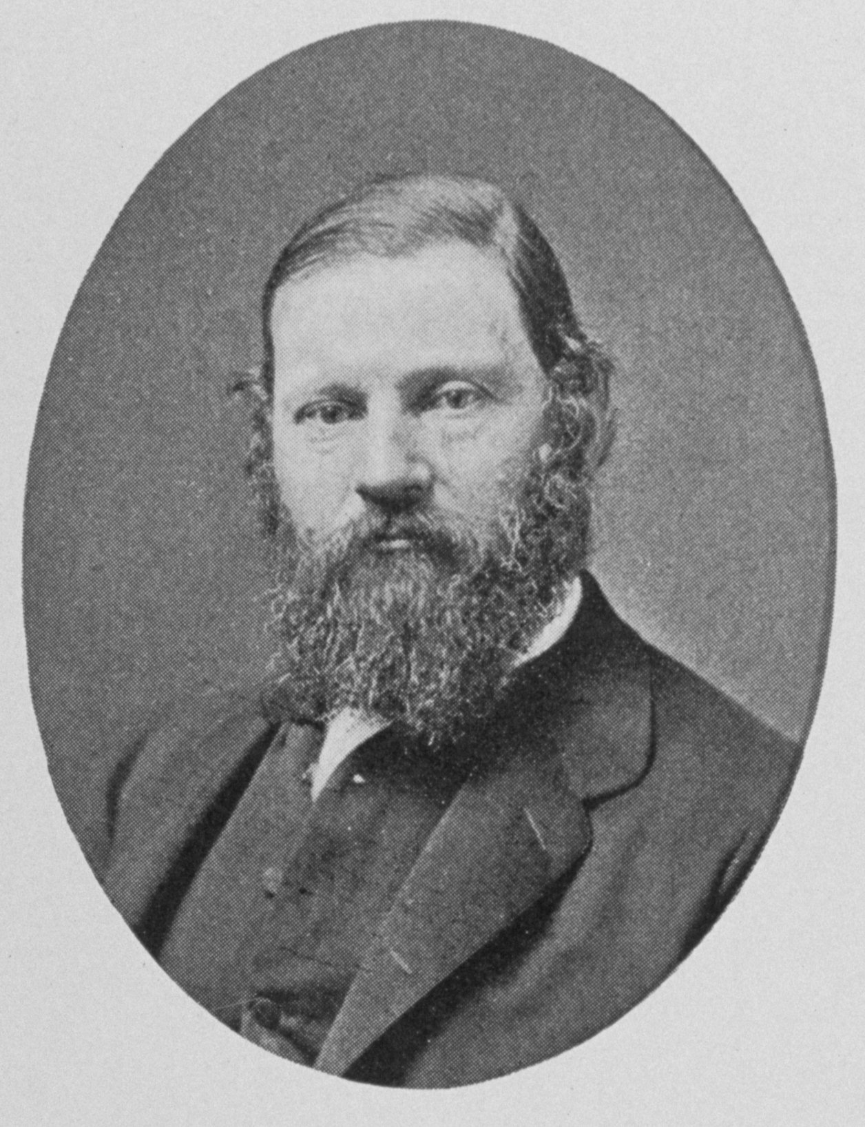 Count Louis Francois de Pourtales (1824-1880). In: National Academy of Sciences Biographical Memoir V, p. 78.